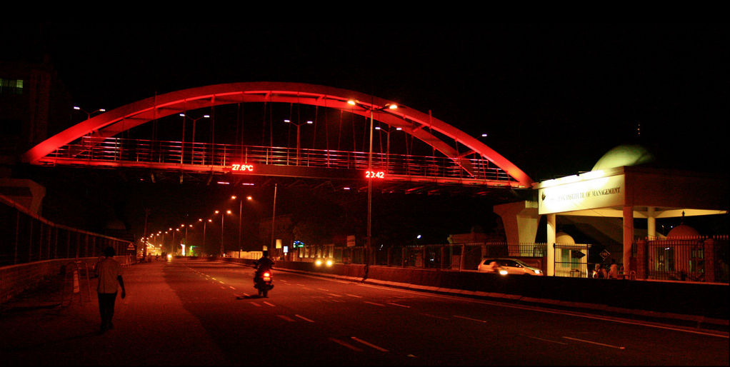 PSG tech